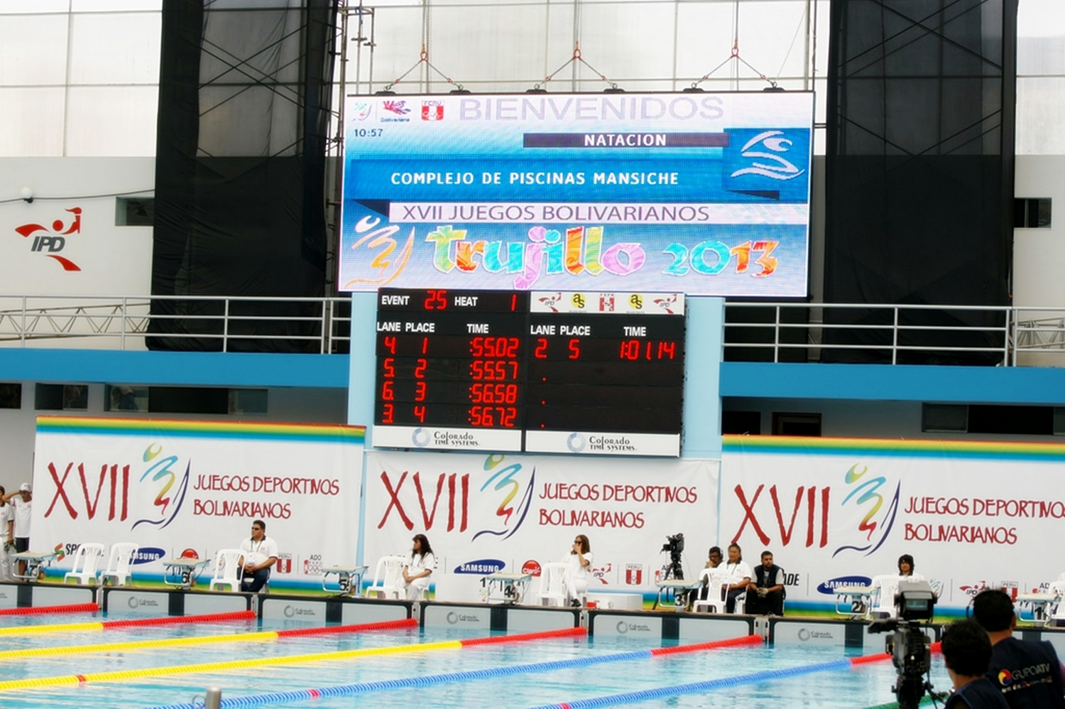 Piscina Olimpica Mansiche